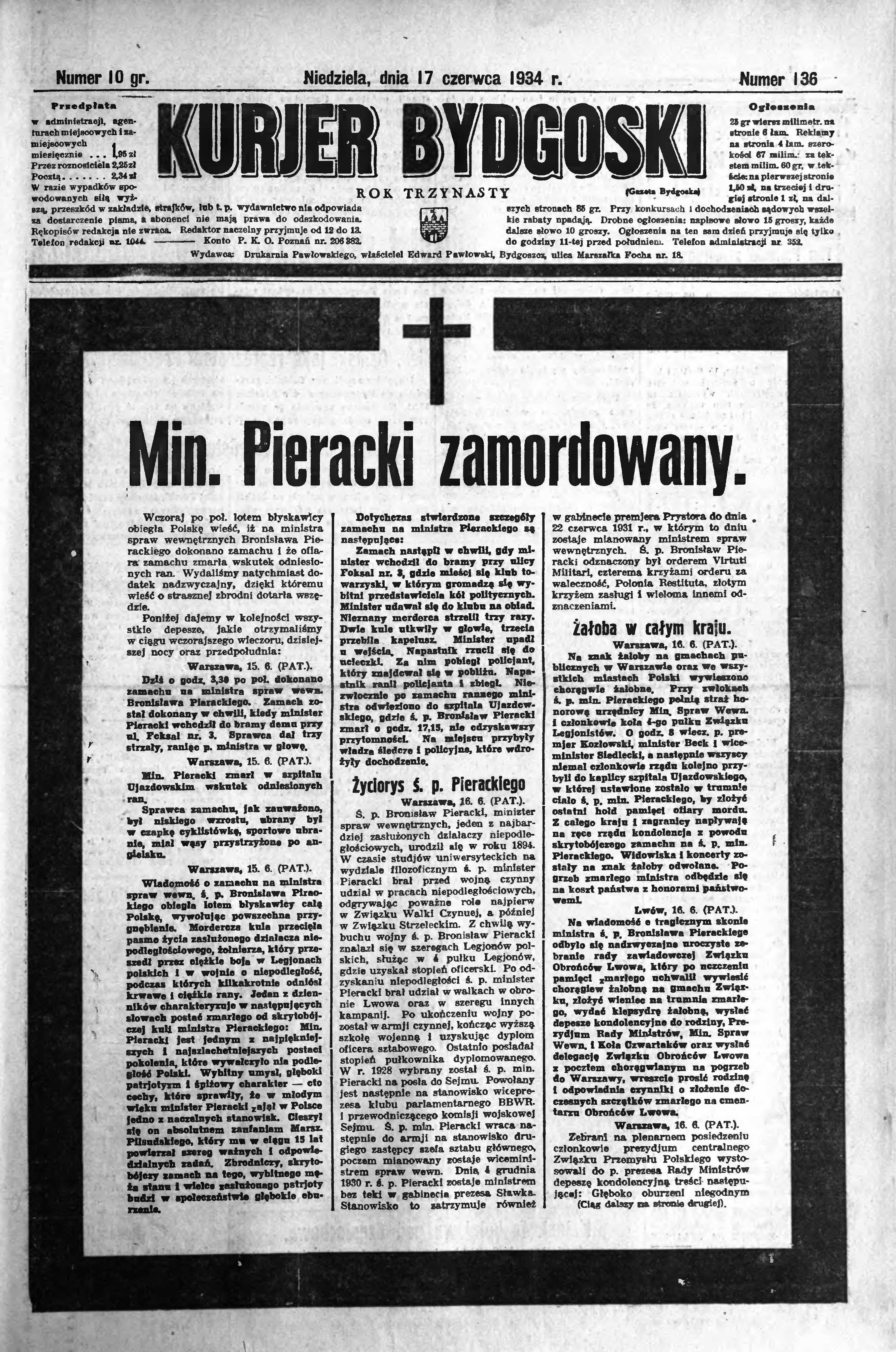 "Kurjer Bydgoski's" frontpage with information on assasination of Polish minister Bronisław Pieracki.